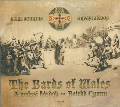 Artwork for the Album The Bards Of Wales / Beirdd Cymru by Karl Jenkins / Arany János